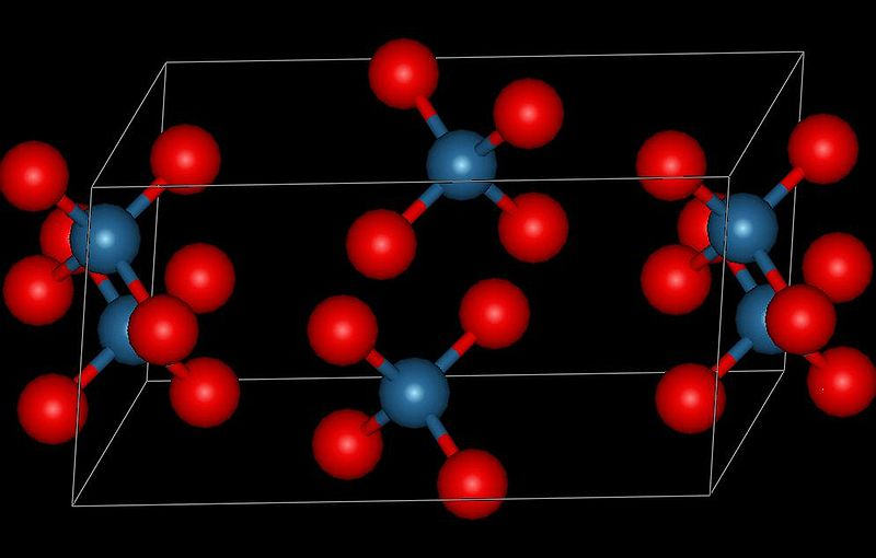 Structure of OsO4 (red atoms are oxygens)